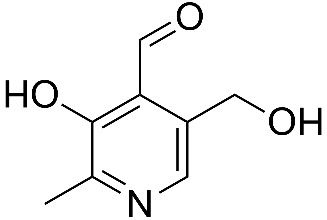 chemical structure of pyridoxal